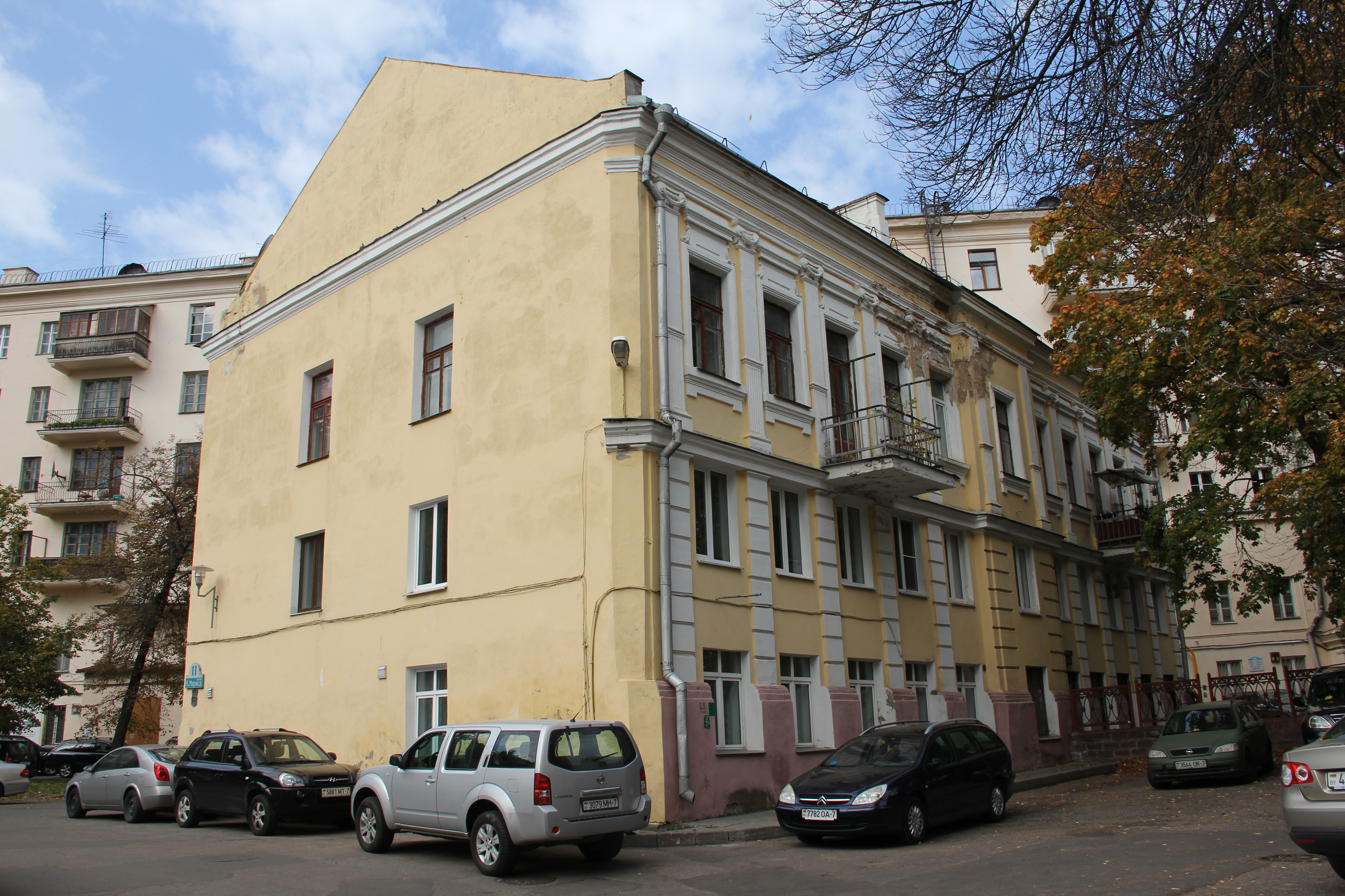 Беларуская (тарашкевіца): Будынак. г. Менск This is a photo of Belarusian heritage monument. Reference number: 713Г000115 ( WLM)